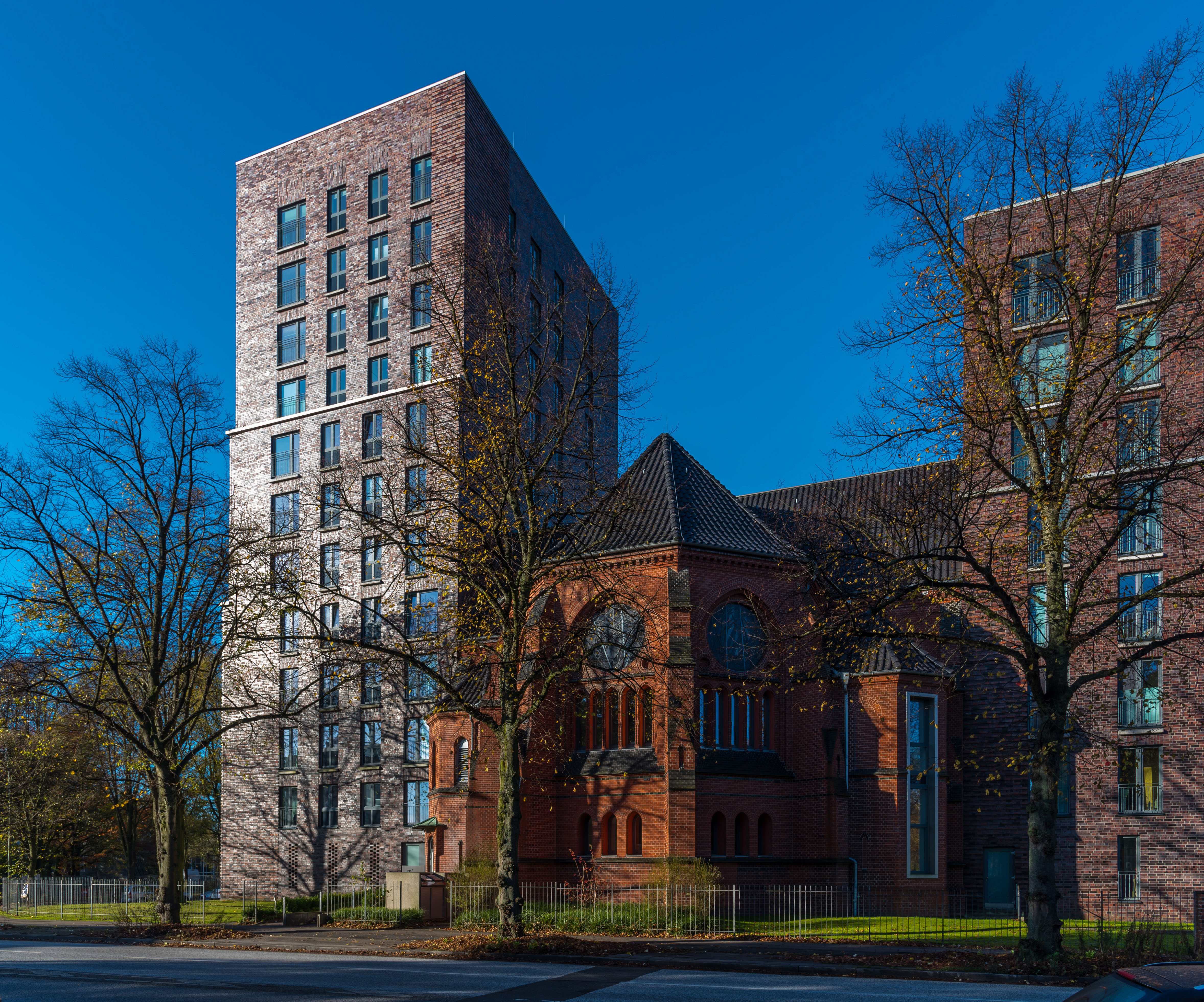 Apartment towers erected around the remaining structures of the former church of the Holy Ghost, closed in 2004 and largely torn down in 2008, in Barmbek-Süd, Hamburg, Germany.